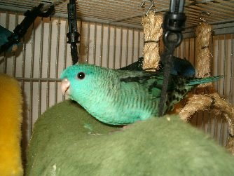 Male turquoise Barred Parakeet (Bolborhynchus lineola) at about 7 weeks of age.